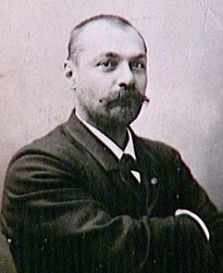 French explorer Gabriel Bonvalot (1853-1933). Photograph by Eugène Pirou (1841-1909)